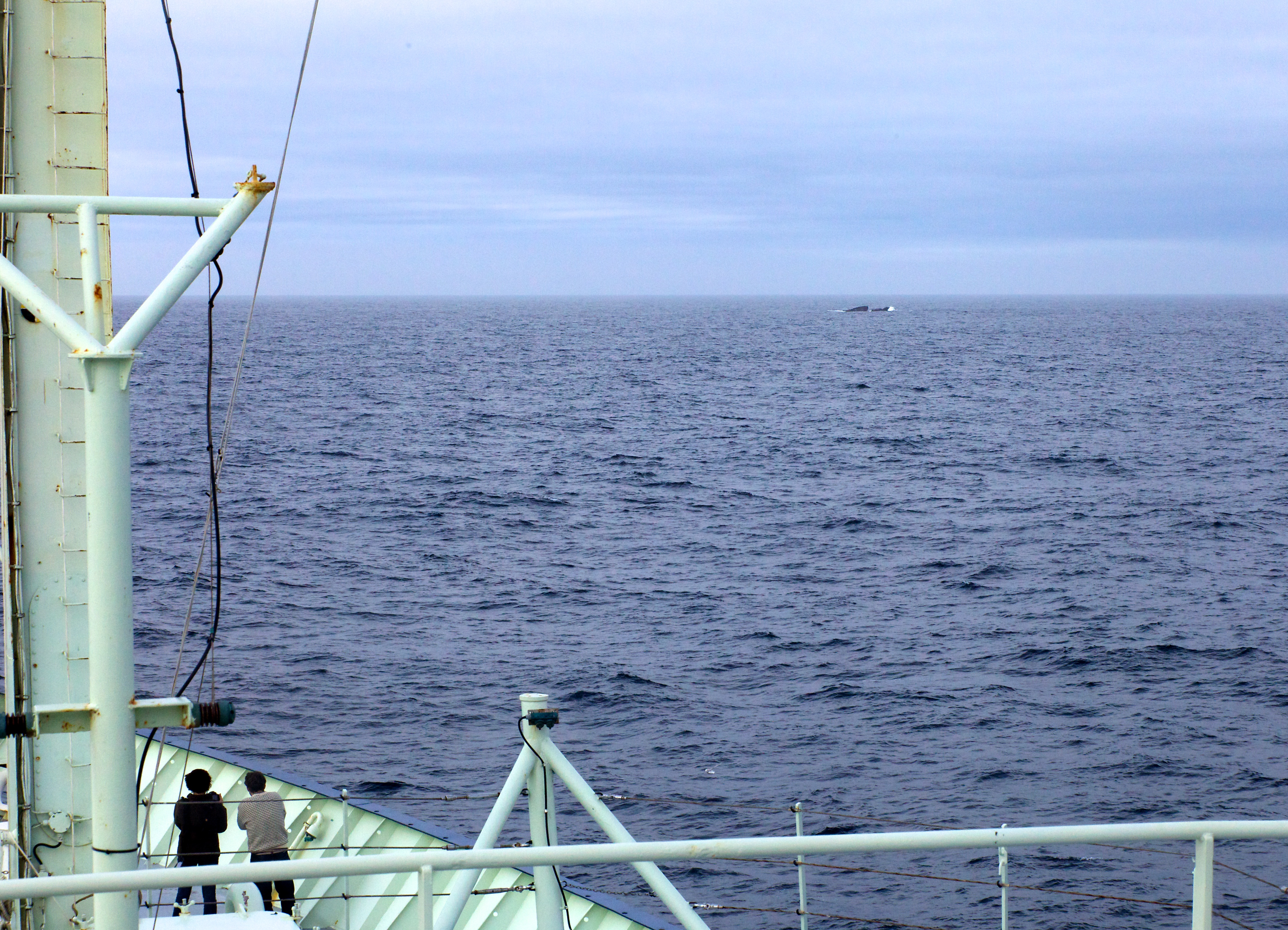 Kolbeinsøy, 105 km north of Iceland, here seen from the deck of RV «Knorr».